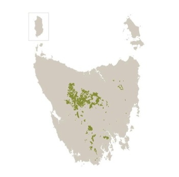 Tasmanian distribution of E. coccifera